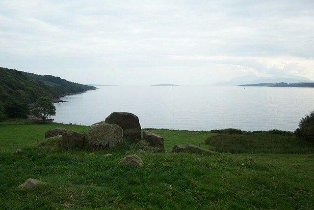 Michael's Grave, Kilmichael. Looking down the Kyles of Bute with Arran on the far horizon.